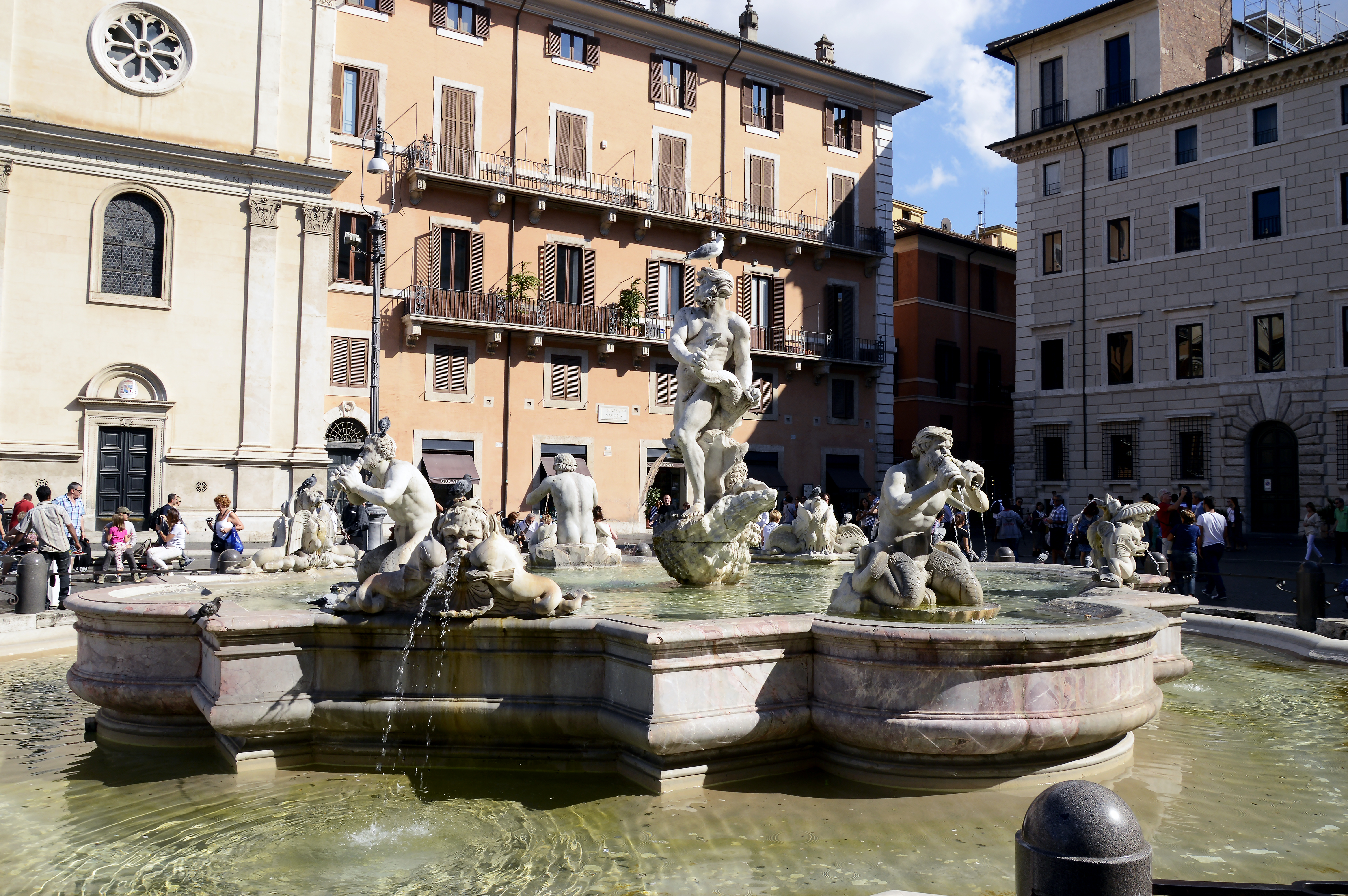 Moor Fountain